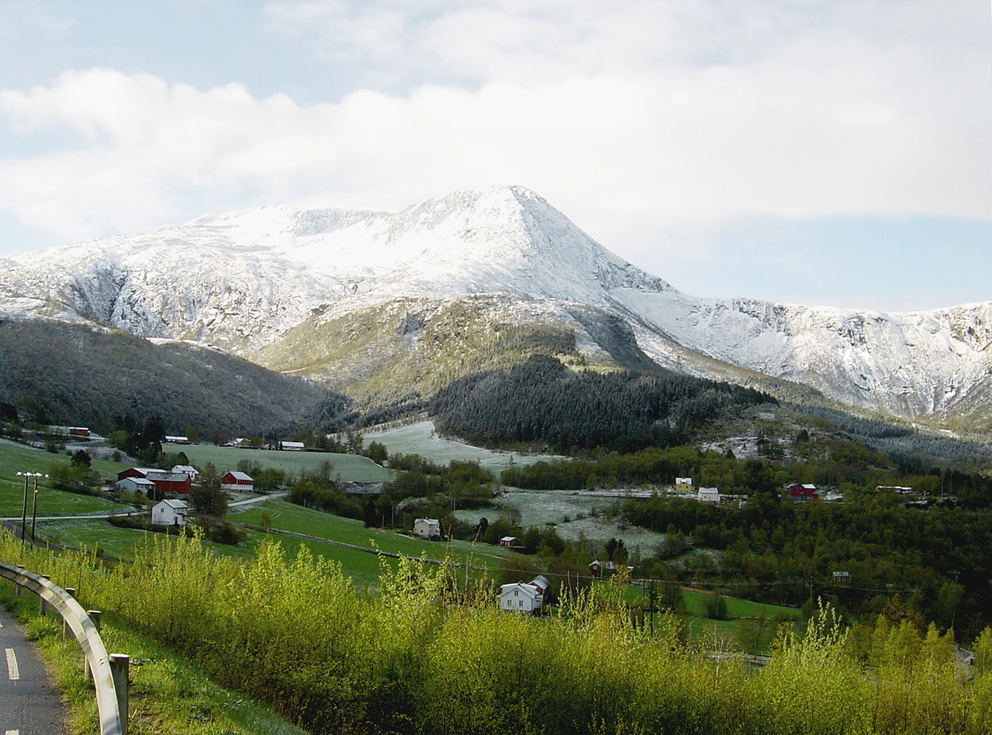 from Gjemnes and Storlandet and the mountain Harstadfjellet.